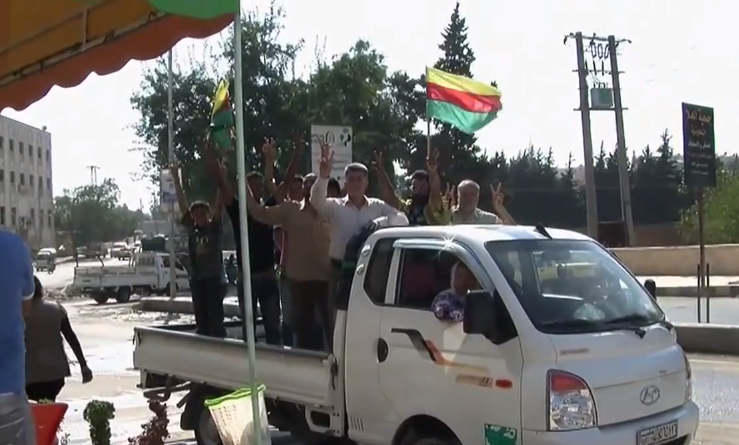 Kurds showing their support for the PYD in Afrin (Governorate of Aleppo) during the conflict.